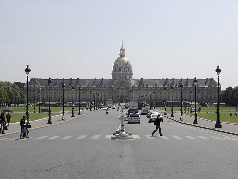 The Hôtel des Invalides, Paris, France. View from the Esplanade toward south.